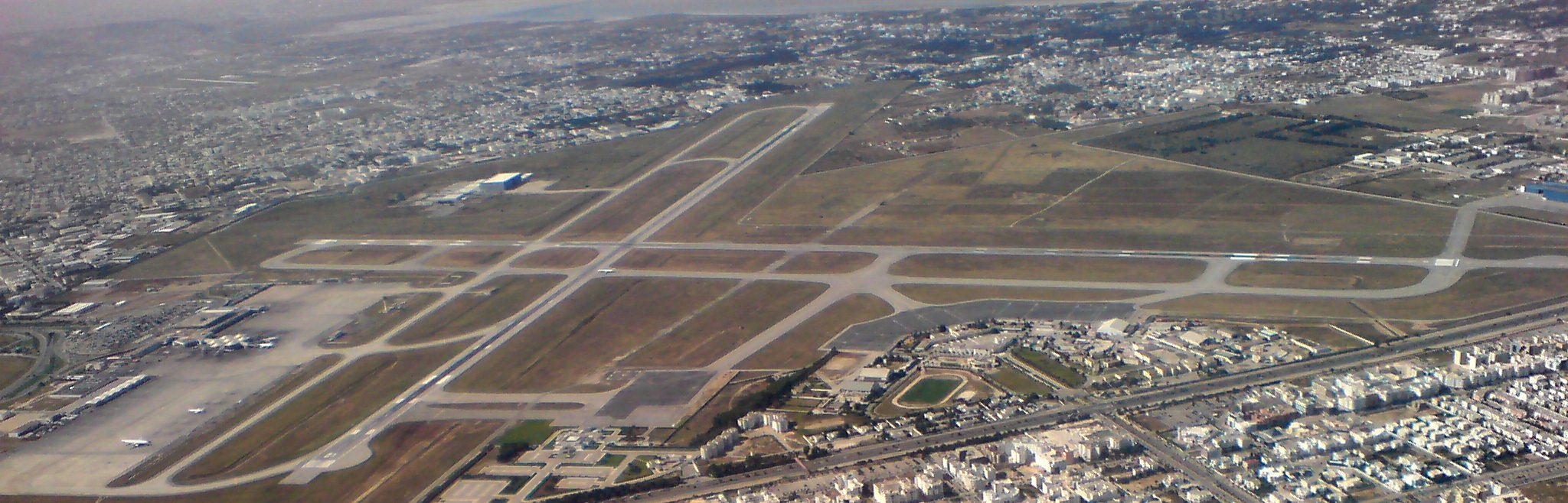 Aerial photo of Tunis Carthage Airport, Tunisia